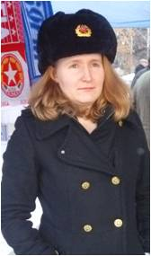 Laura Koschorek in Lacrosse trainingscamp in Bulgaria